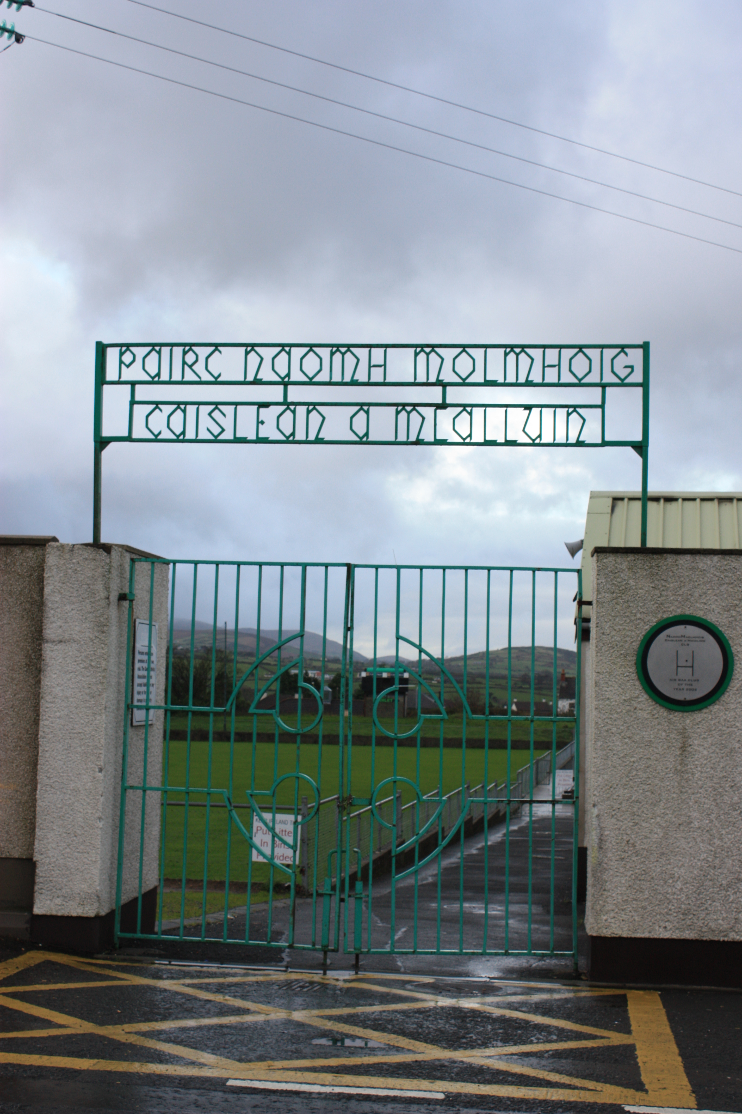 Castlewellan Gaelic Athletic Club (GAC), St Malachy's Park, Circular Road, Castlewellan, County Down, Northern Ireland, December 2009